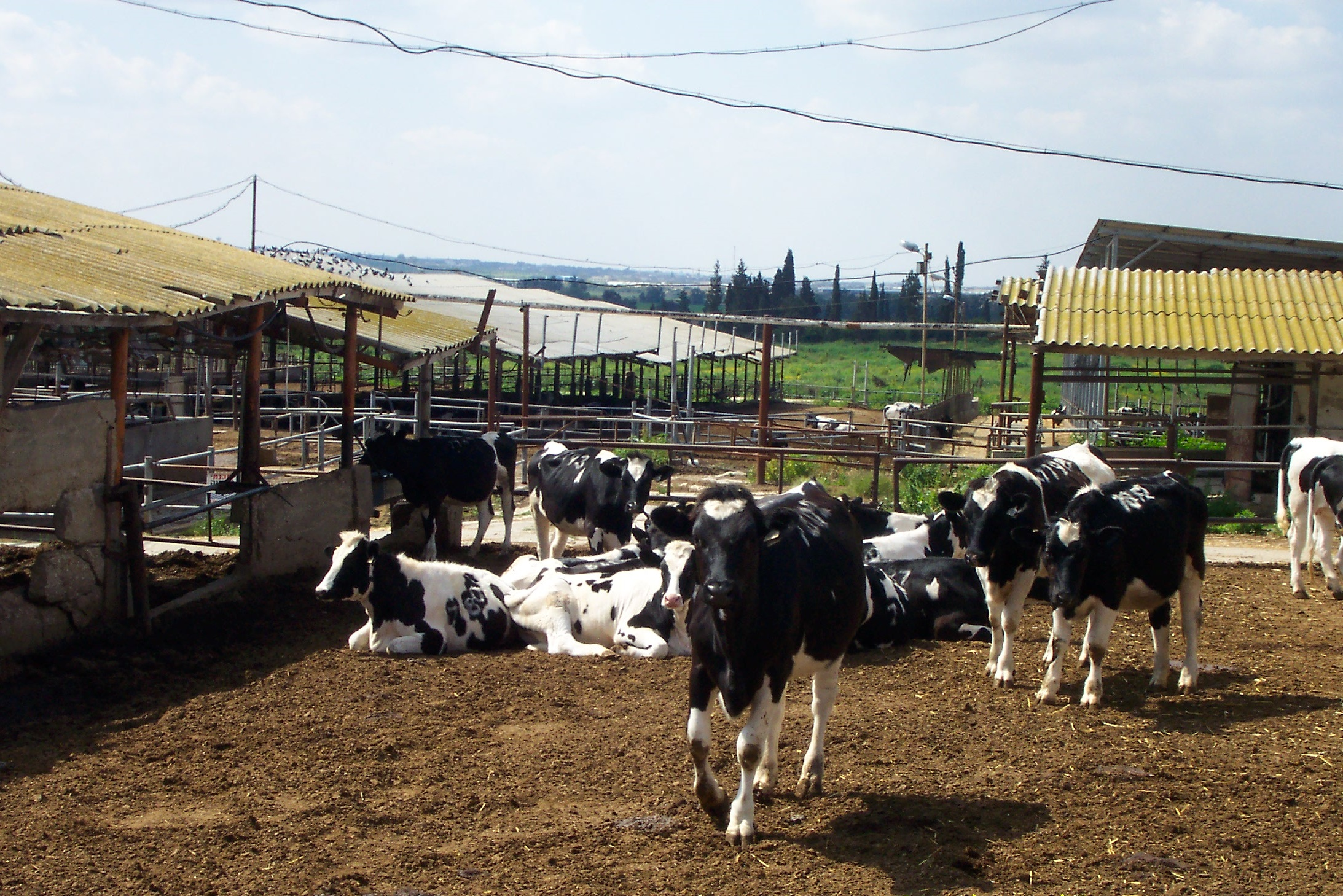 Cows in the barn